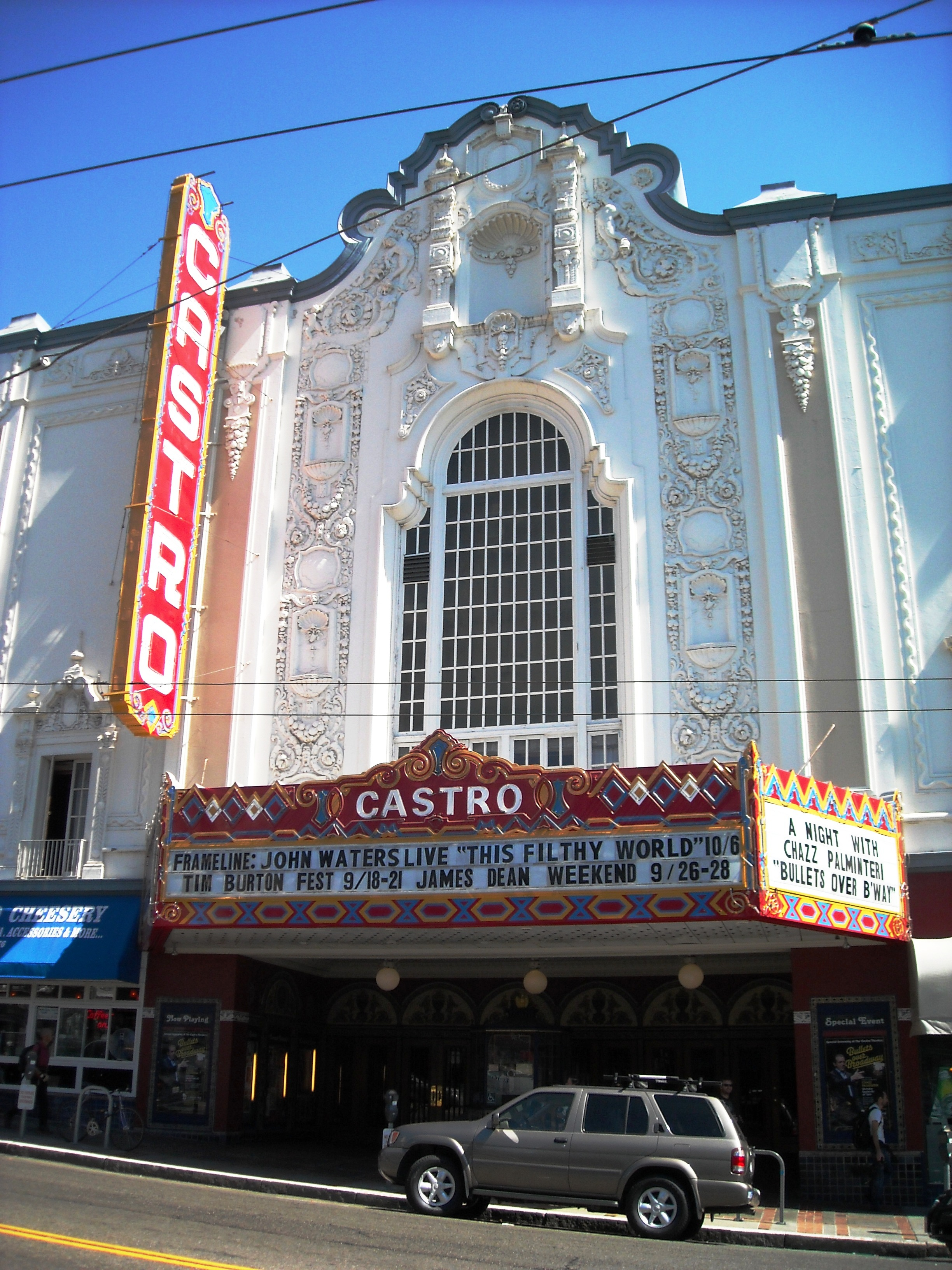 Image originally published in Queer Places: Retracing the Steps of LGBTQ people around the World Authored by Elisa Rolle